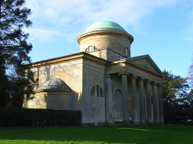 Church of England parish church of All Saints, Nuneham Courtenay, Oxfordshire. Built in 1764 for Earl Harcourt, who had the original village and medieval parish church demolished. The village was rebuilt almost a mile away and in 1874 a third All Saints parish church was completed closer to the village. The second All Saints is now redundant and cared for by the Churches Conservation Trust.